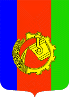 Coat of Arms of Lysva 1985, soviet version